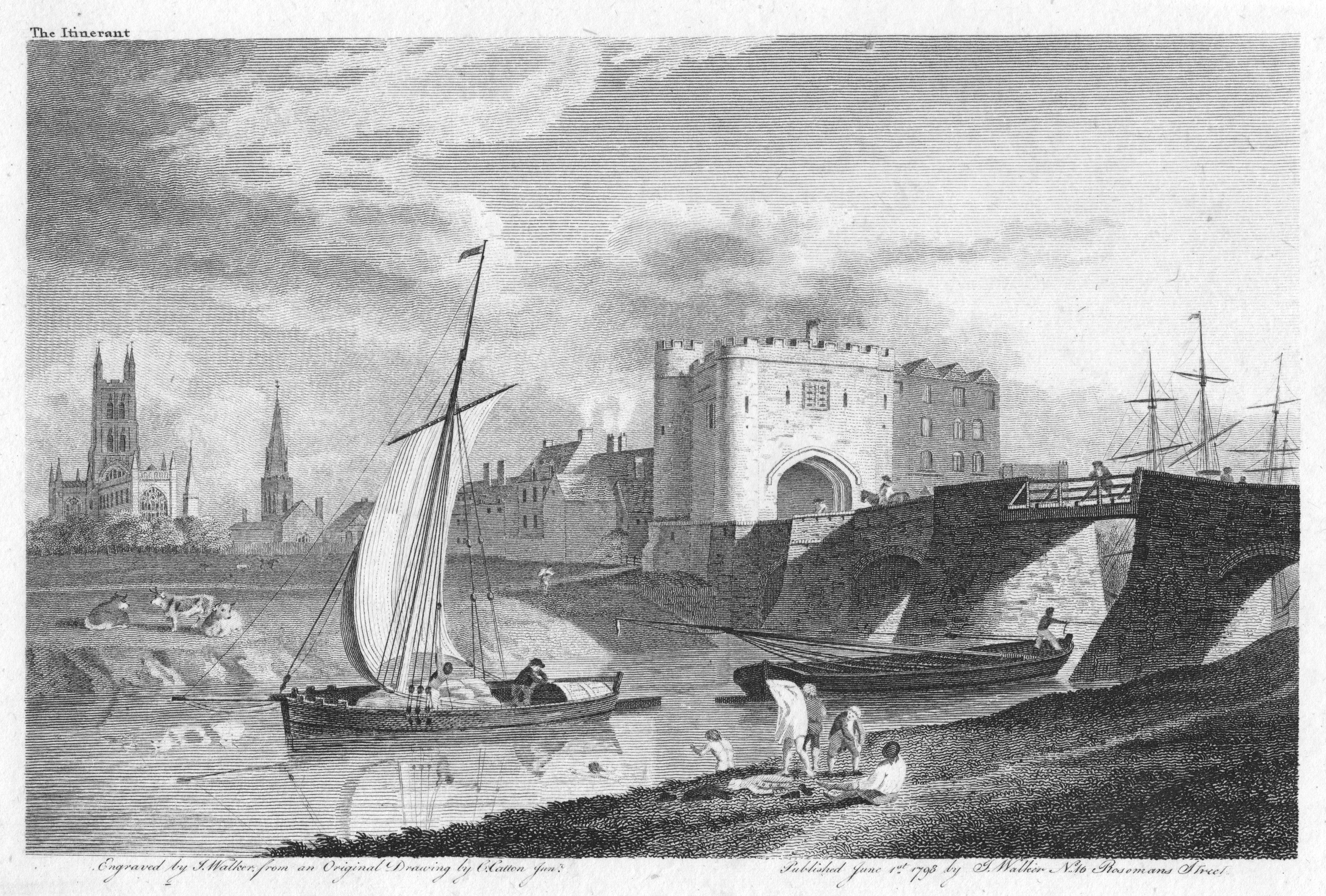 Two trows naviagating a bridge at Gloucester, England. The boat on the right has taken down its mast -- a distinctive feature of that type of vessel